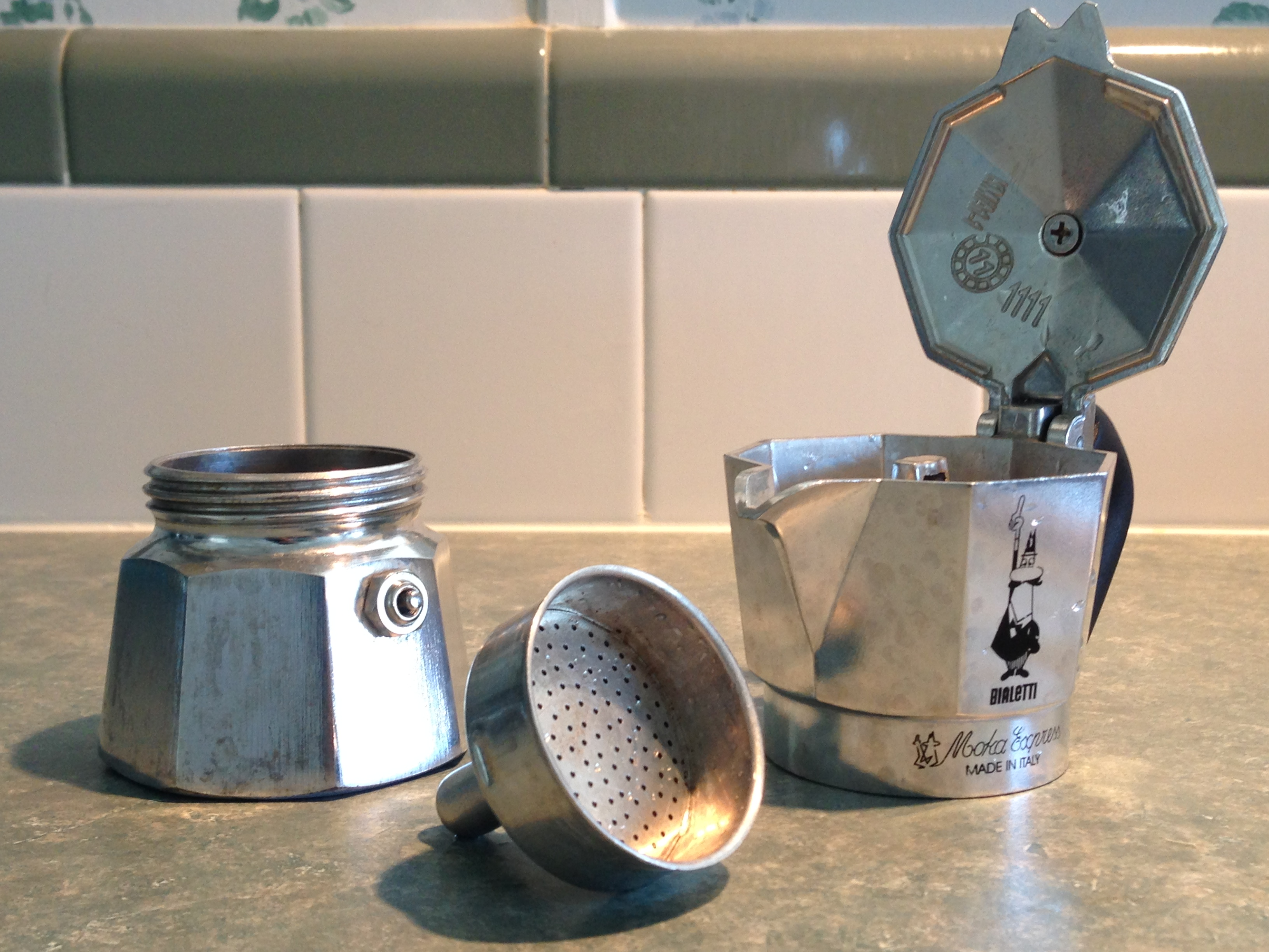 Components of a Bialetti Moka Express (Made in Italy).